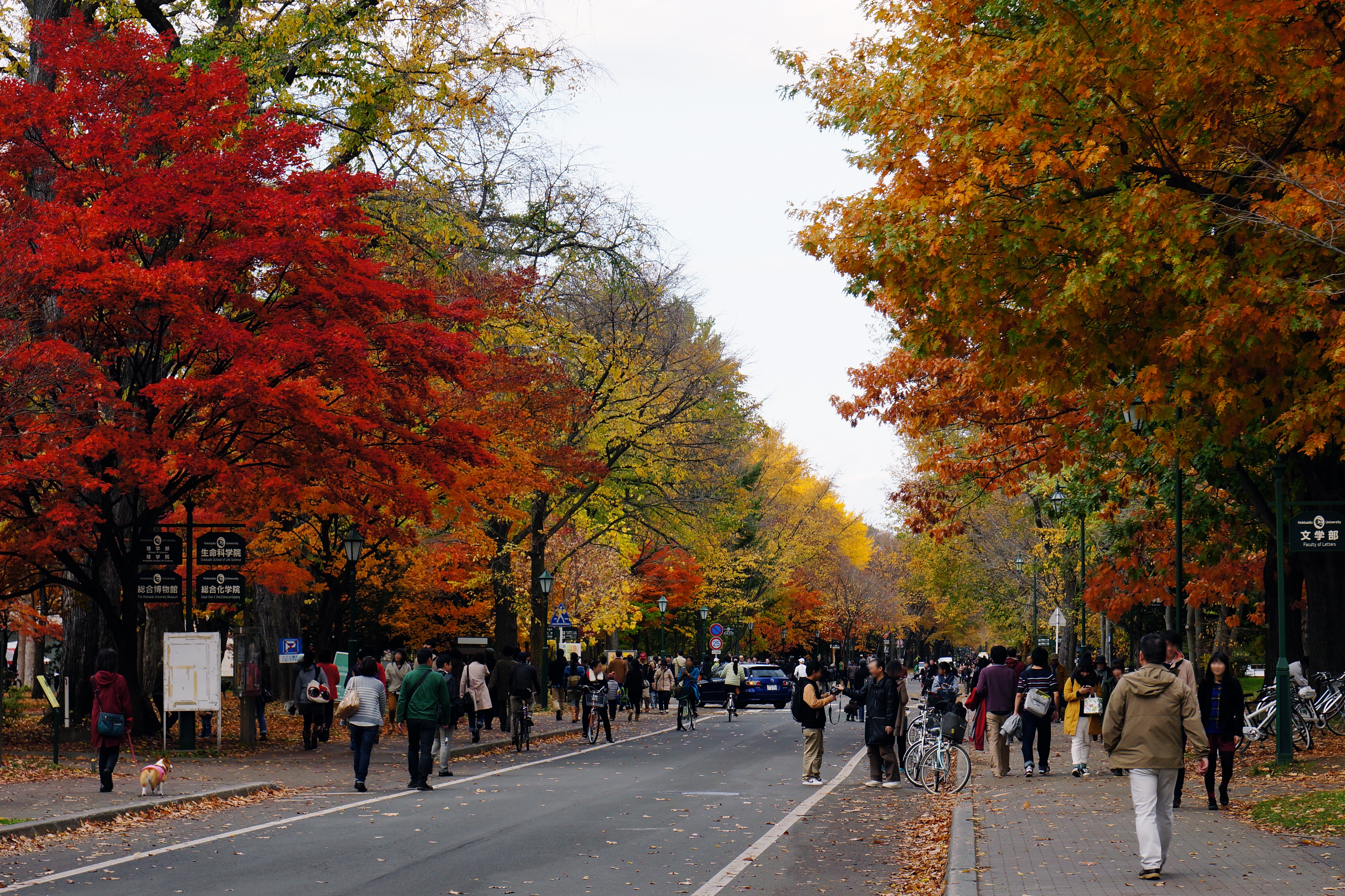 At Hokkaido University in Sapporo, Hokkaido prefecture, Japan.